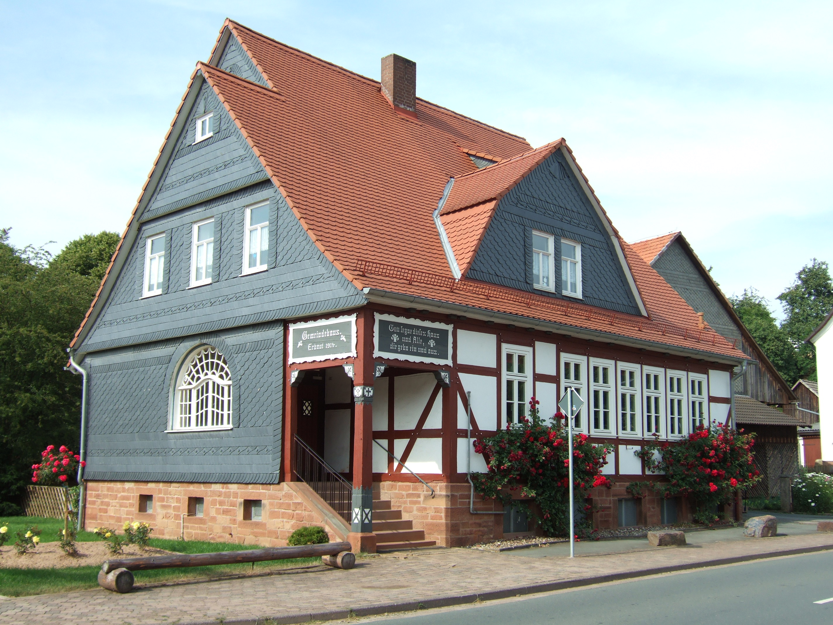 Protestant parish hall in Rosenthal (Hessen), built 1914, Germany